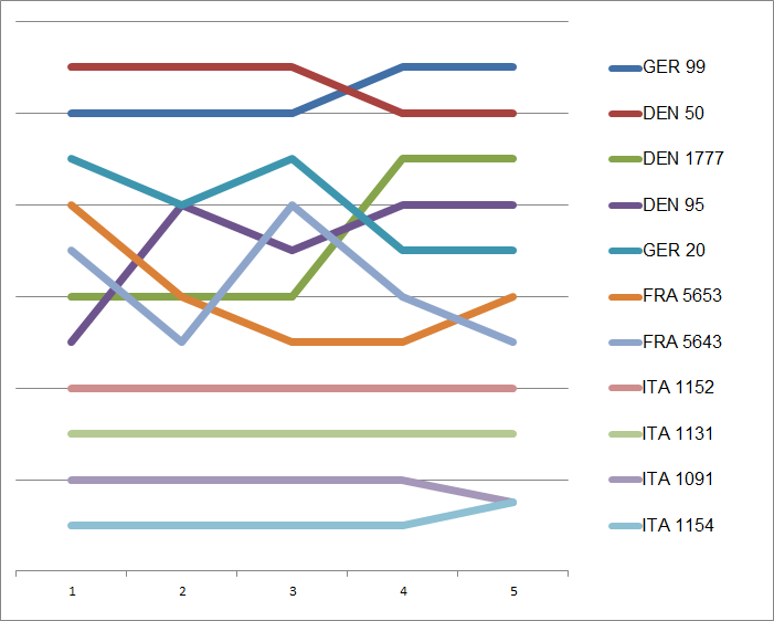 Europe Female Positions during the 2012 Vintage